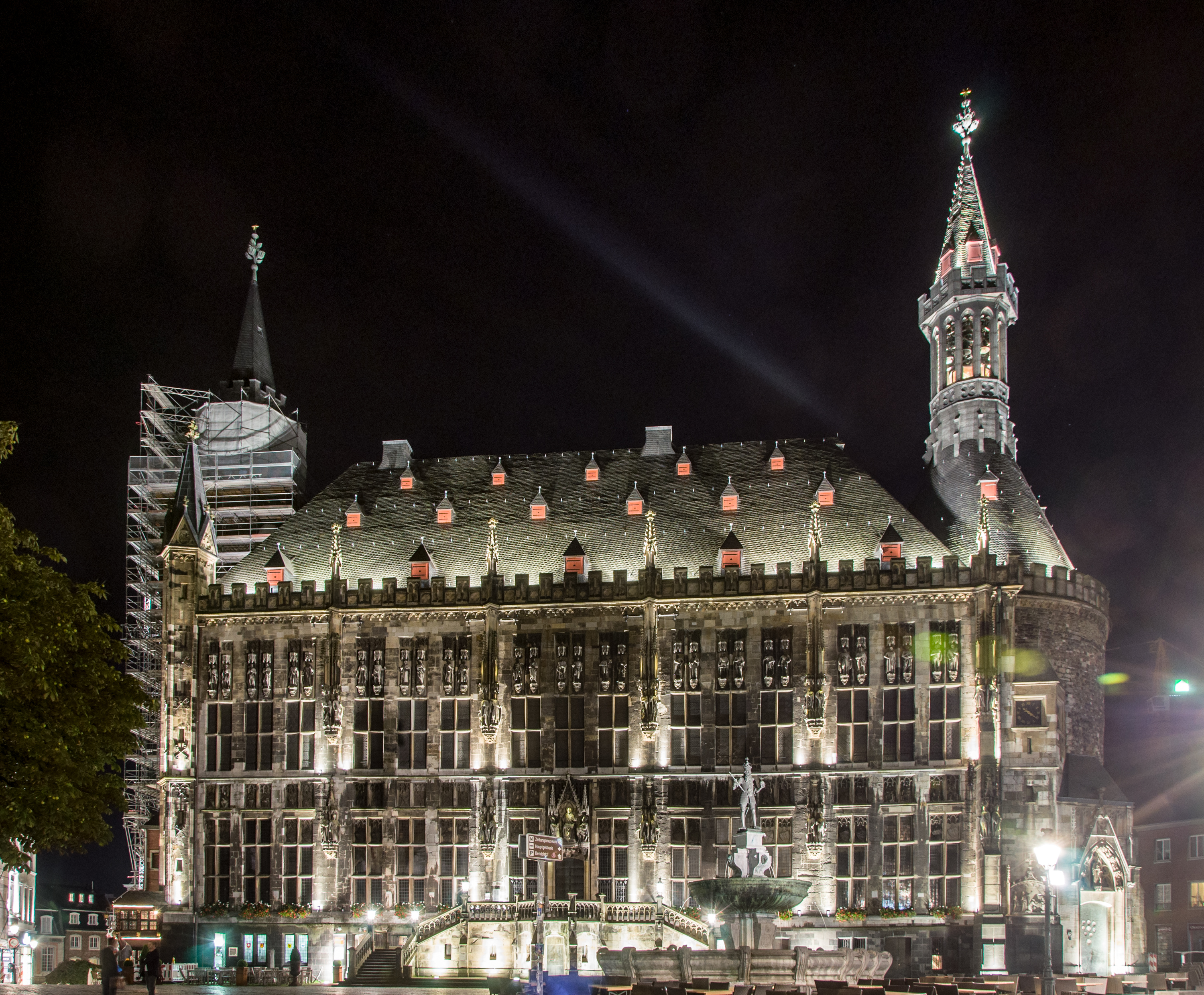 Front view of Aachen's town hall at night This is a photograph of an architectural monument.It is on the list of cultural monuments of Aachen